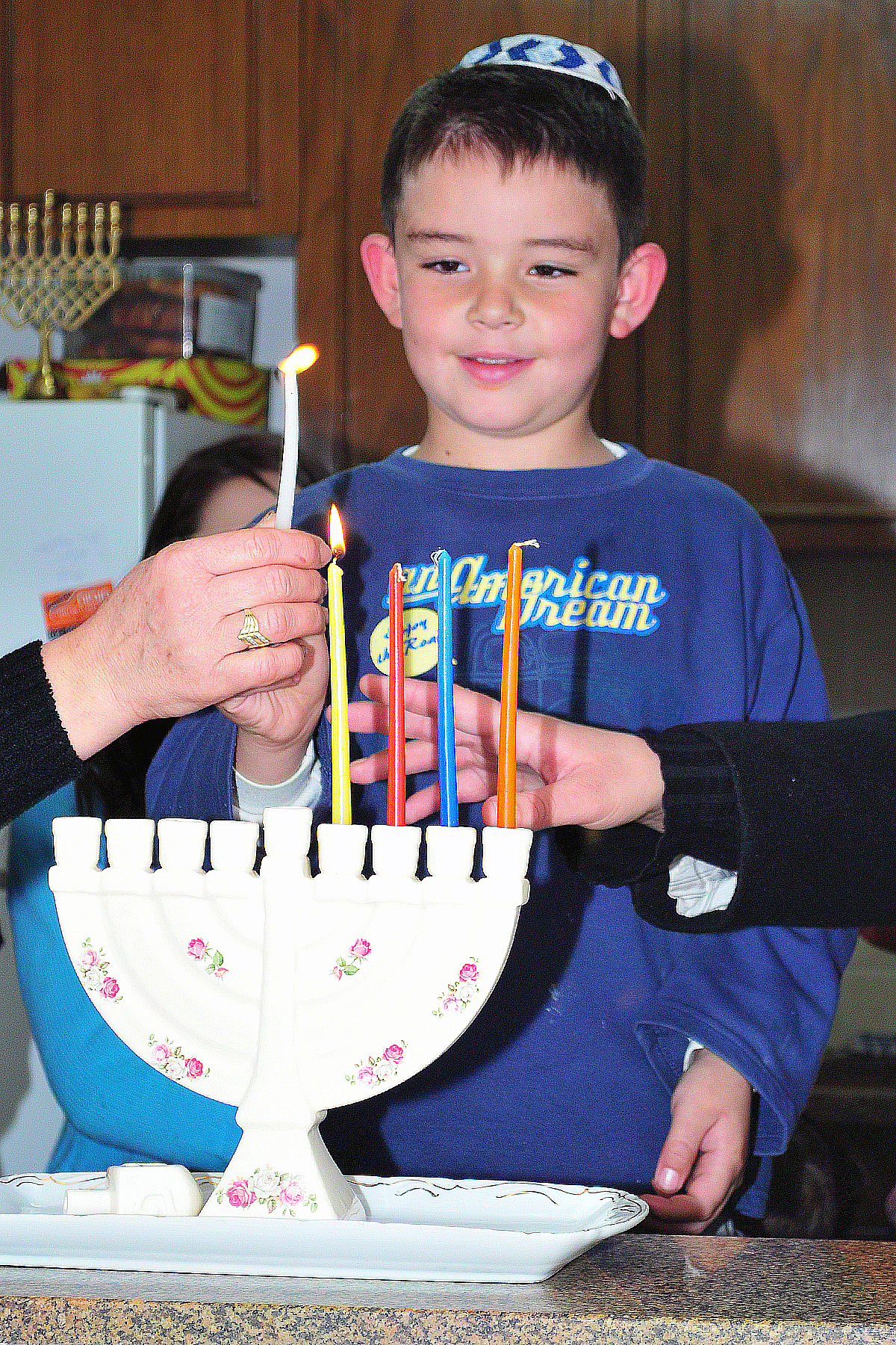 HOLIDAY OF HANUKA